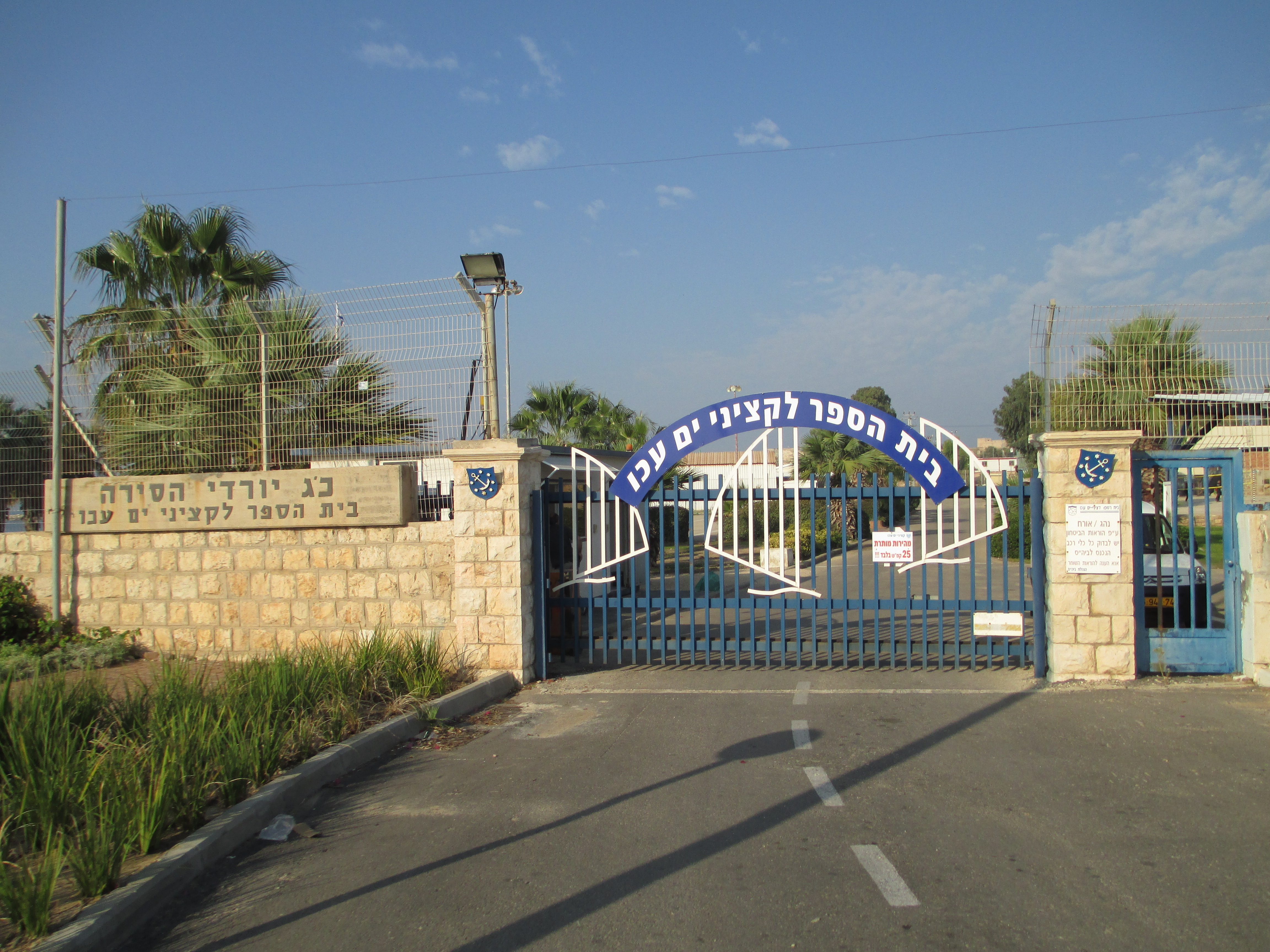 The Israel Nautical School in Akko